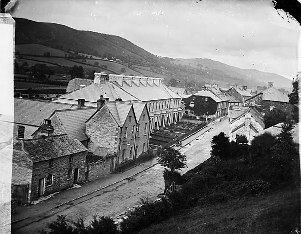 1 negative : glass, wet collodion, b&w ; 10 x 12.5 cm.